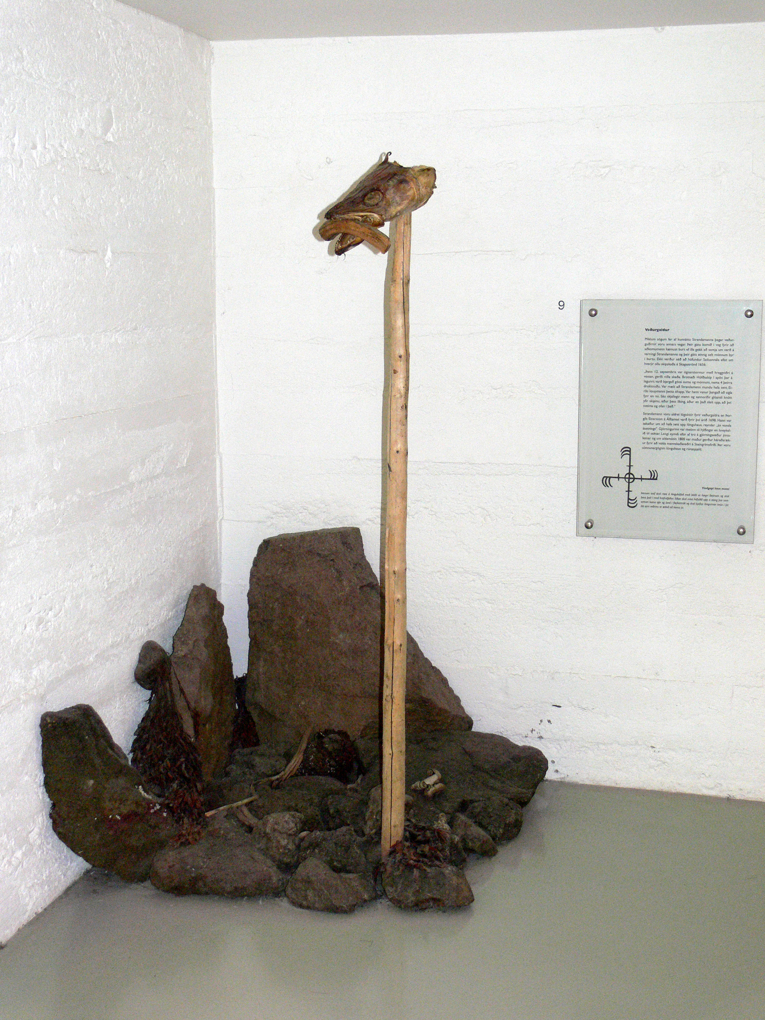 Storm evocation: Take the head of a ling and carve out the magic symbol "Vindgapi". Then apply with the feather of a raven blood of your right foot on the magical characters. Skewers head on a stake and judge him on the seashore. Rotate the mouth in that direction from which the wind shall blowing. The Higher the mouth point upwards, the stronger the called storm.